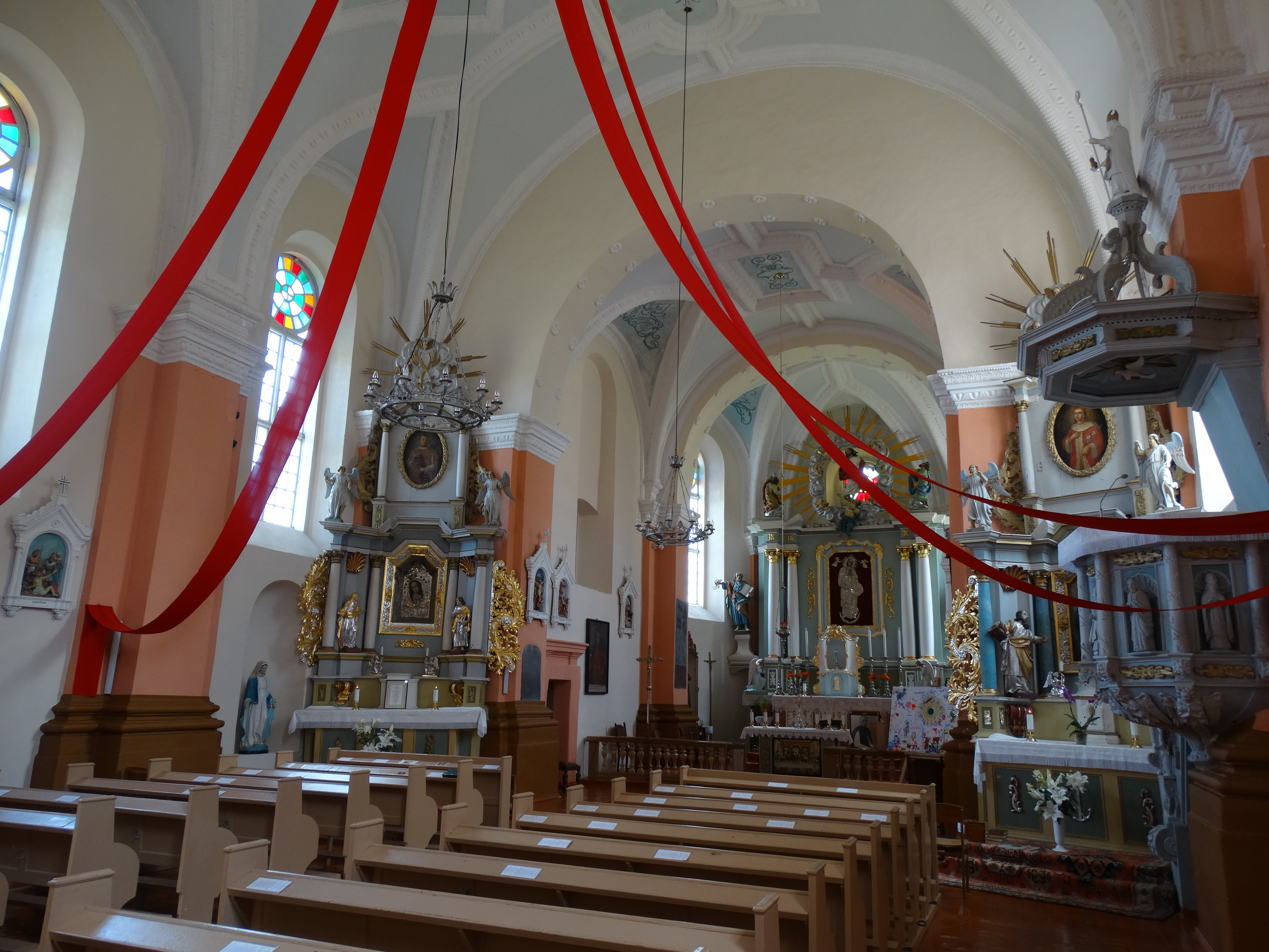 Church of Saint Lawrence, Videniškiai, Molėtai district, Lithuania